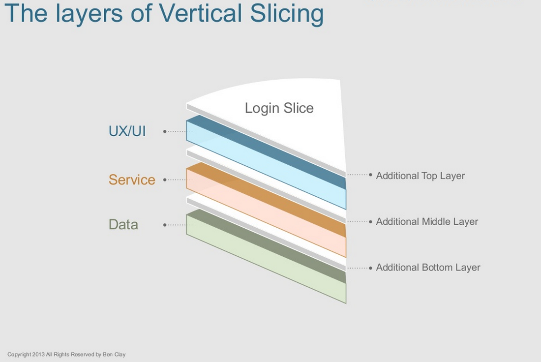 Visualizing the layers of a vertical slice.